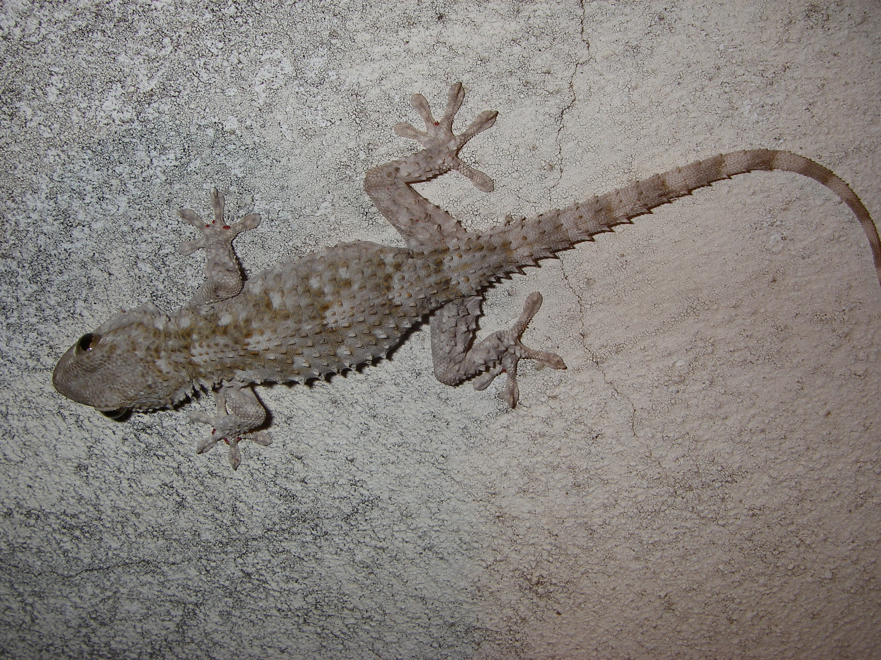 Common gecko on a wall